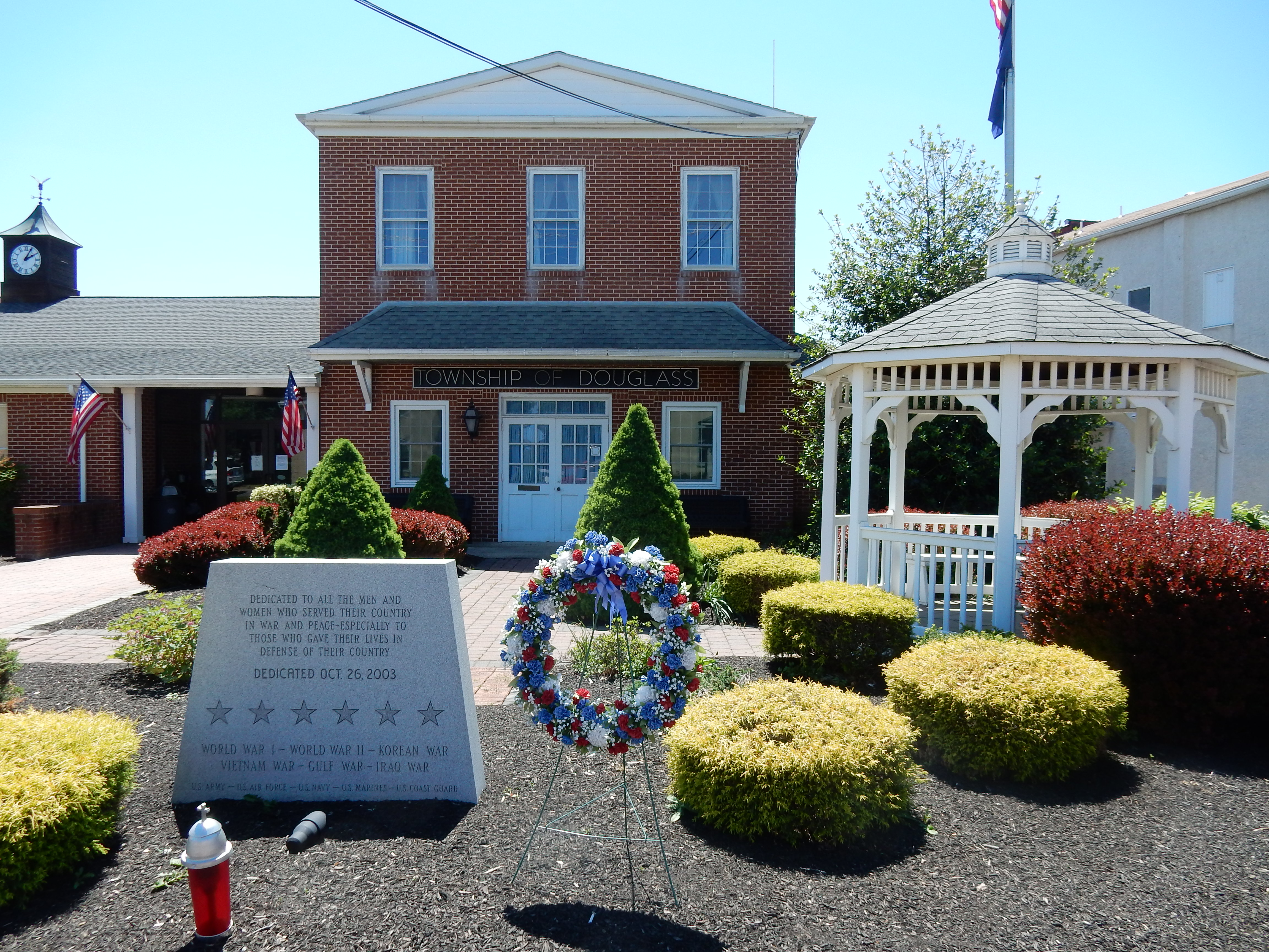 Douglass Township Administration and Police Department Building, 1320 E. Philadelphia Avenue, Gilbertsville, Montgomery County, Pennsylvania.